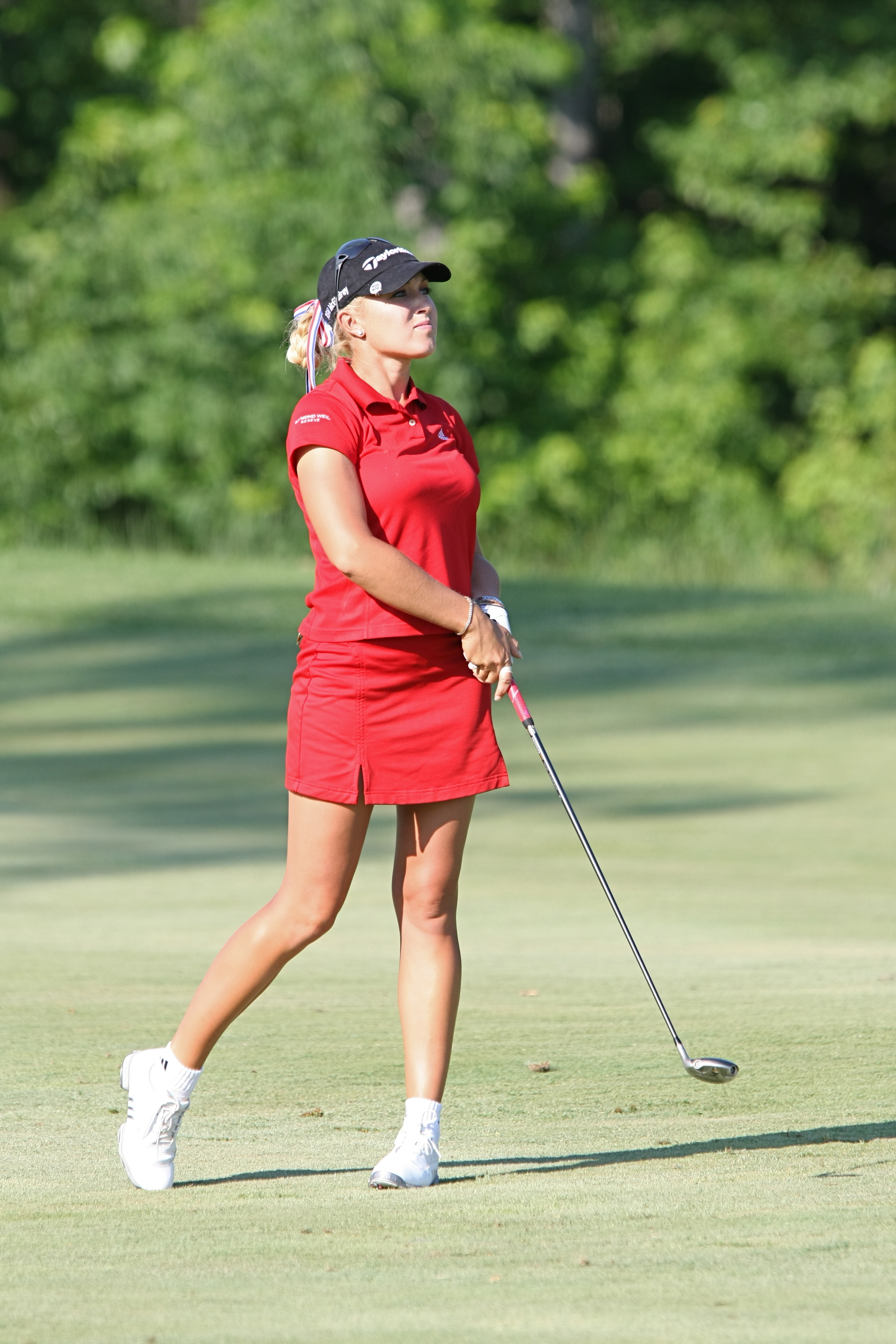 HAVRE DE GRACE, MD - JUNE 02: Natalie Gulbis (USA) during pro-am before 2008 LPGA Championship held at Bulle Rock Golf Course, on June 2, 2008 in Havre de Grace, Maryland. (Photo by Keith Allison)